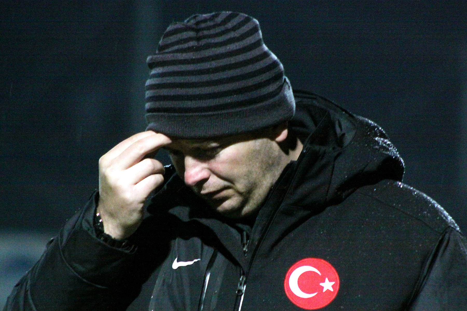 Friendly-match Austria U-21 vs. Turkey U-21 (2:0) on 2013-11-14 in Wiener Neudorf. – The photo shows Abdullah Ercan (head-coach of Turkey).